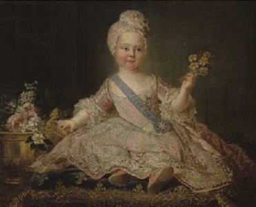 Presumed portrait of Louis de France (1751-1761)